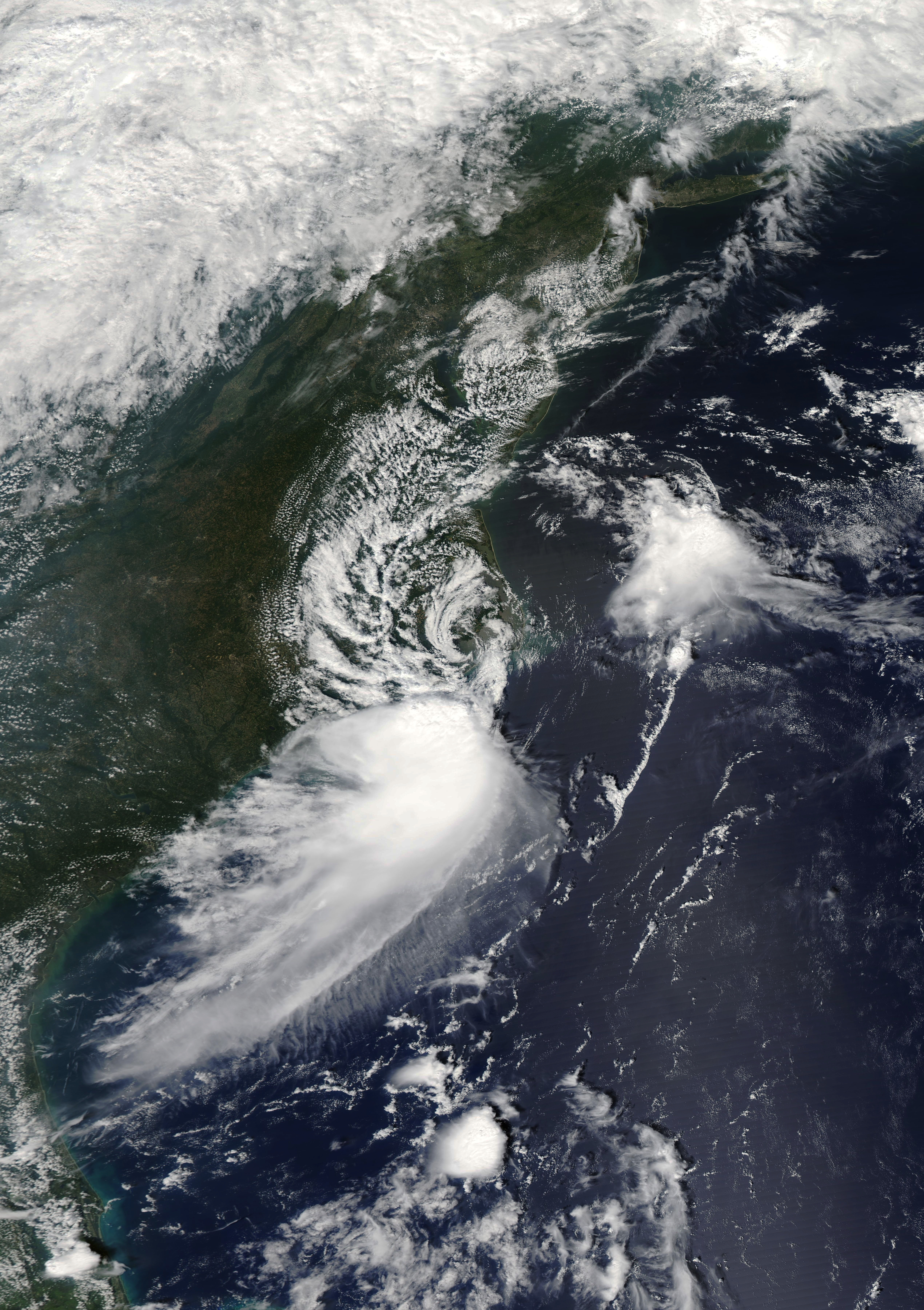 Tropical Storm Gabrielle briefly crossed land, touching North Carolina’s Outer Banks on September 9, 2007. The center of the storm came near Cape Lookout National Seashore, and after passing over Pamlico Sound briefly, headed back out to sea just twelve hours later near Kill Devil Hills. The storm system was not at all dramatic, with peak winds around 70 kilometers per hour (45 miles per hour) as it passed over the Outer Banks, according to the Associated Press. As of the afternoon of September 10, the storm was expected to stay out to sea and weaken as it crossed cooler water. In North Carolina, there were no reports of emergency calls or serious damage, and mostly the storm system was credited with light rains and some inconvenience. The MODIS on NASA's Aqua satellite acquired this photo-like image at 2:00 p.m. local time (18:00 UTC) on September 9, 2007. The loose structure of the storm system, with only a hint of spiral structure, and the patchy clouds show that Gabrielle was not a particularly dangerous or powerful storm. However, the storm did have a discernible if not dramatic eye. Here, the eye appears over Pamlico Sound, behind the barrier of islands that forms the Outer Banks of North Carolina.